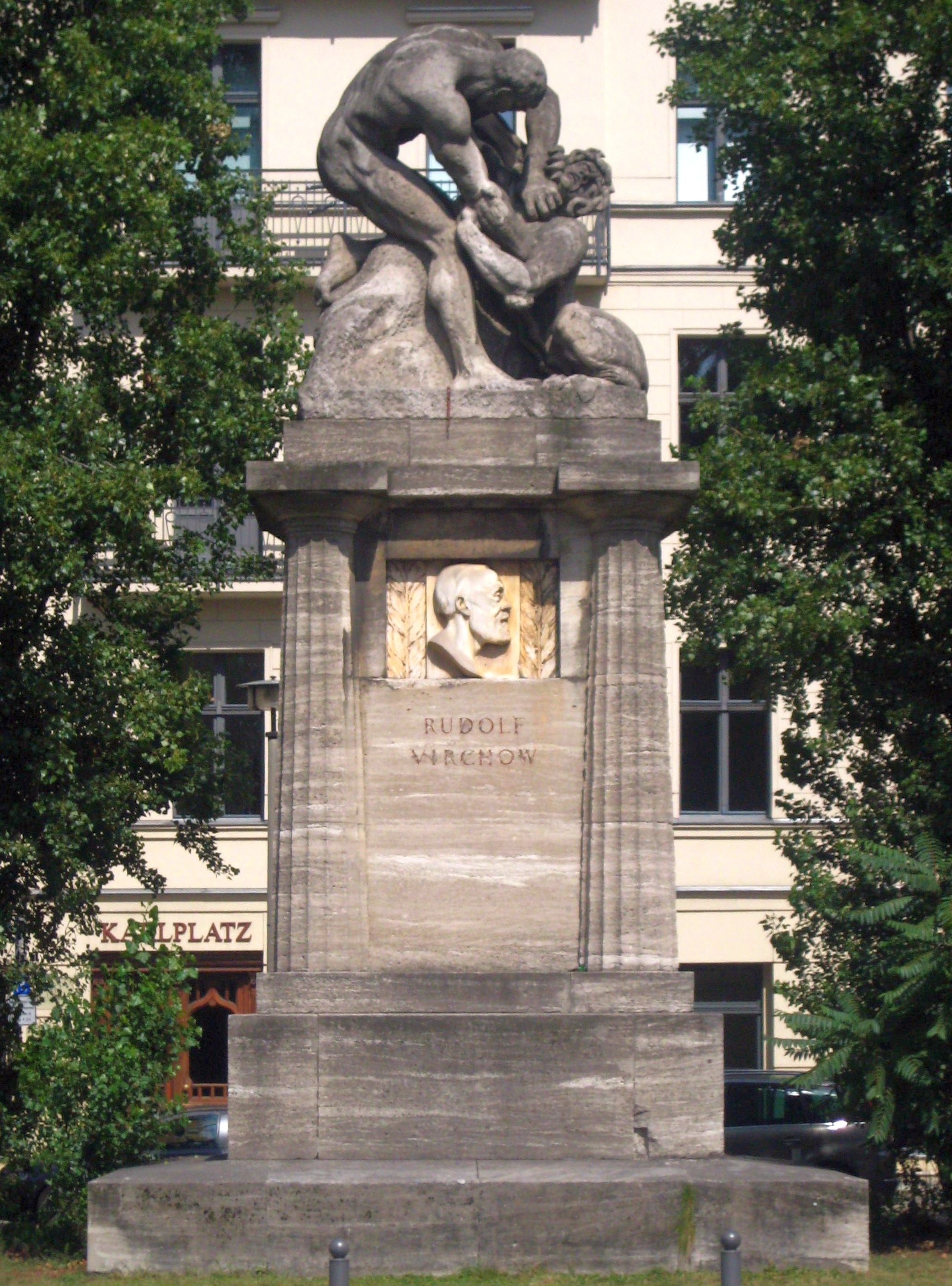 The Rudolf Virchow Memorial on Karlplatz in Berlin-Mitte. Es was created from 1906 to 1910 by Fritz Klimsch. It has been designated as a historic landmark.